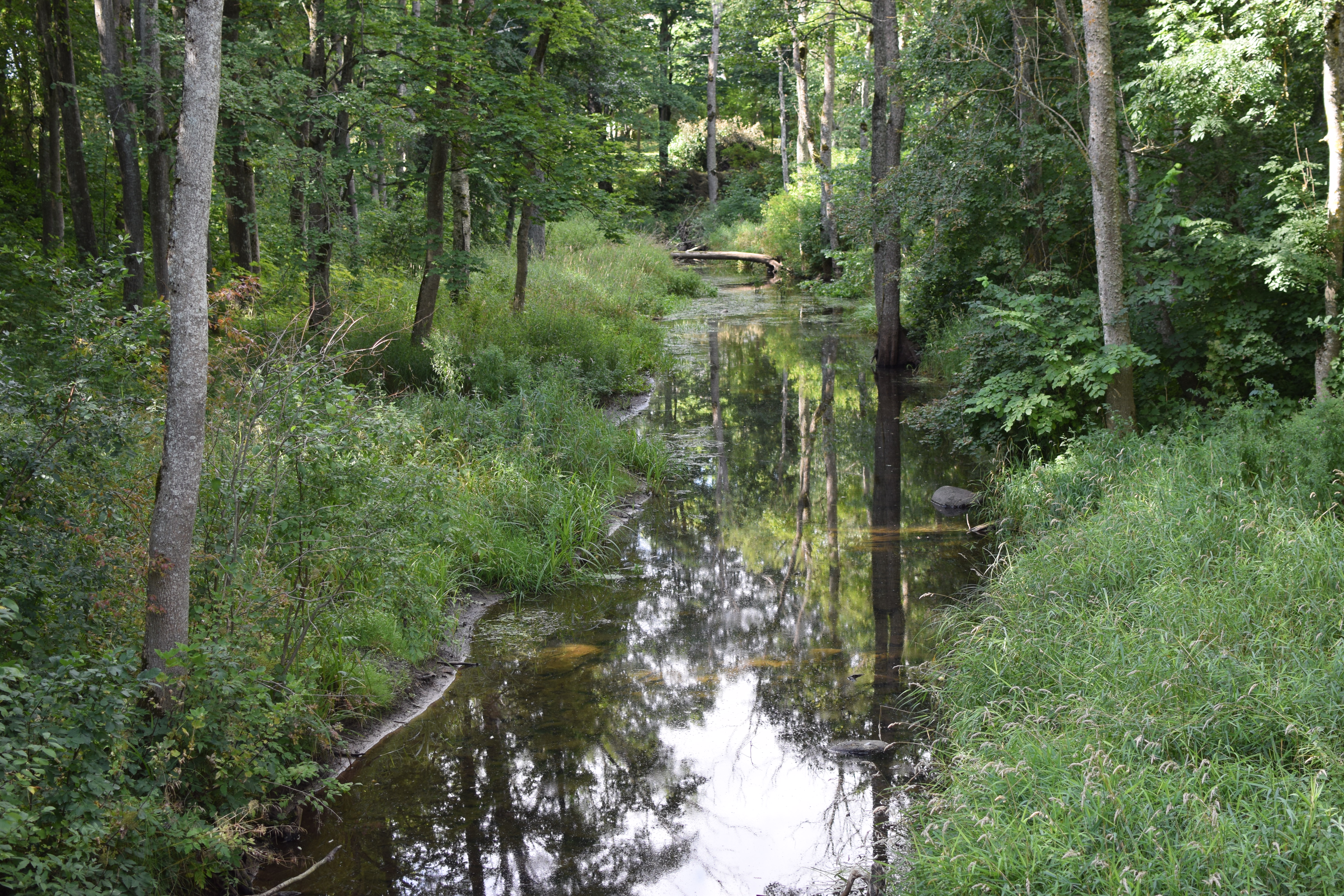 Saldus Municipality